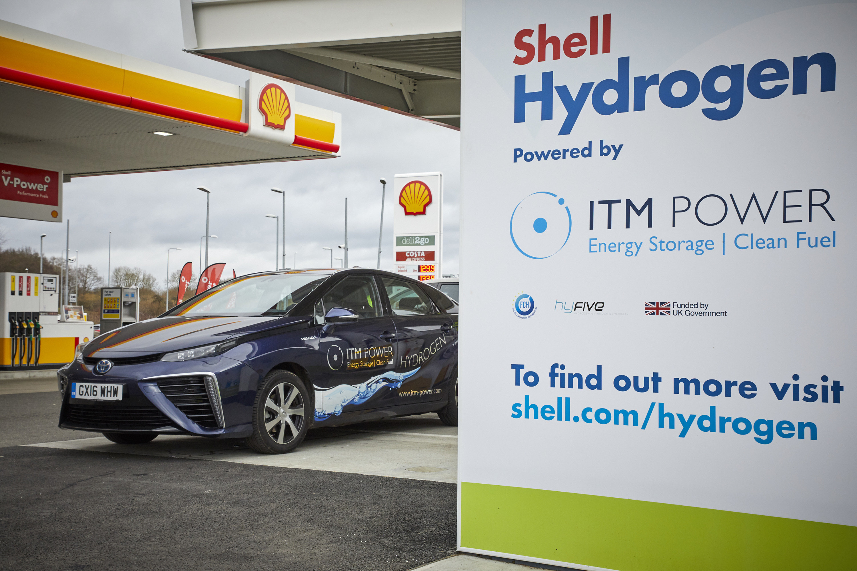 The UKs first Hydrogen station to be located on a forecourt was opened by ITM Power and Shell on 22nd February 2017.